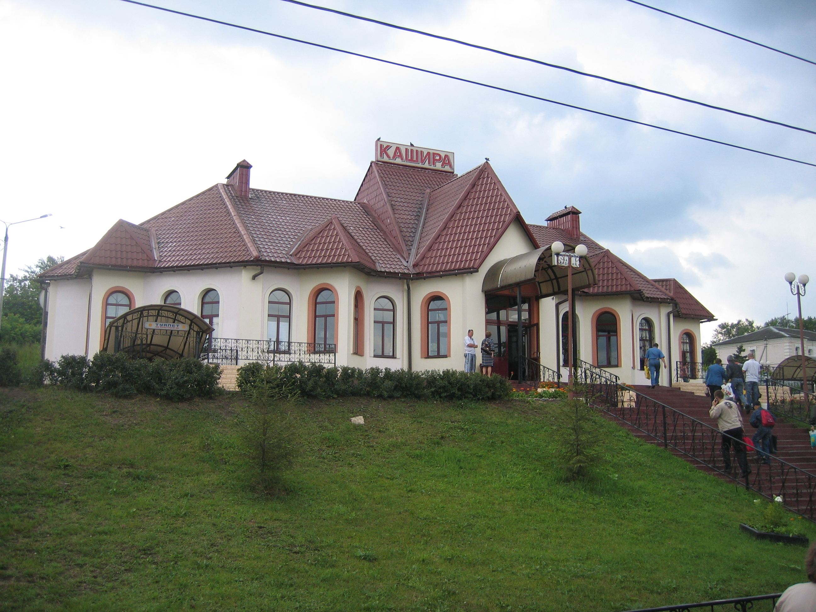 Train station Kashira, Moscow Oblast, Russia